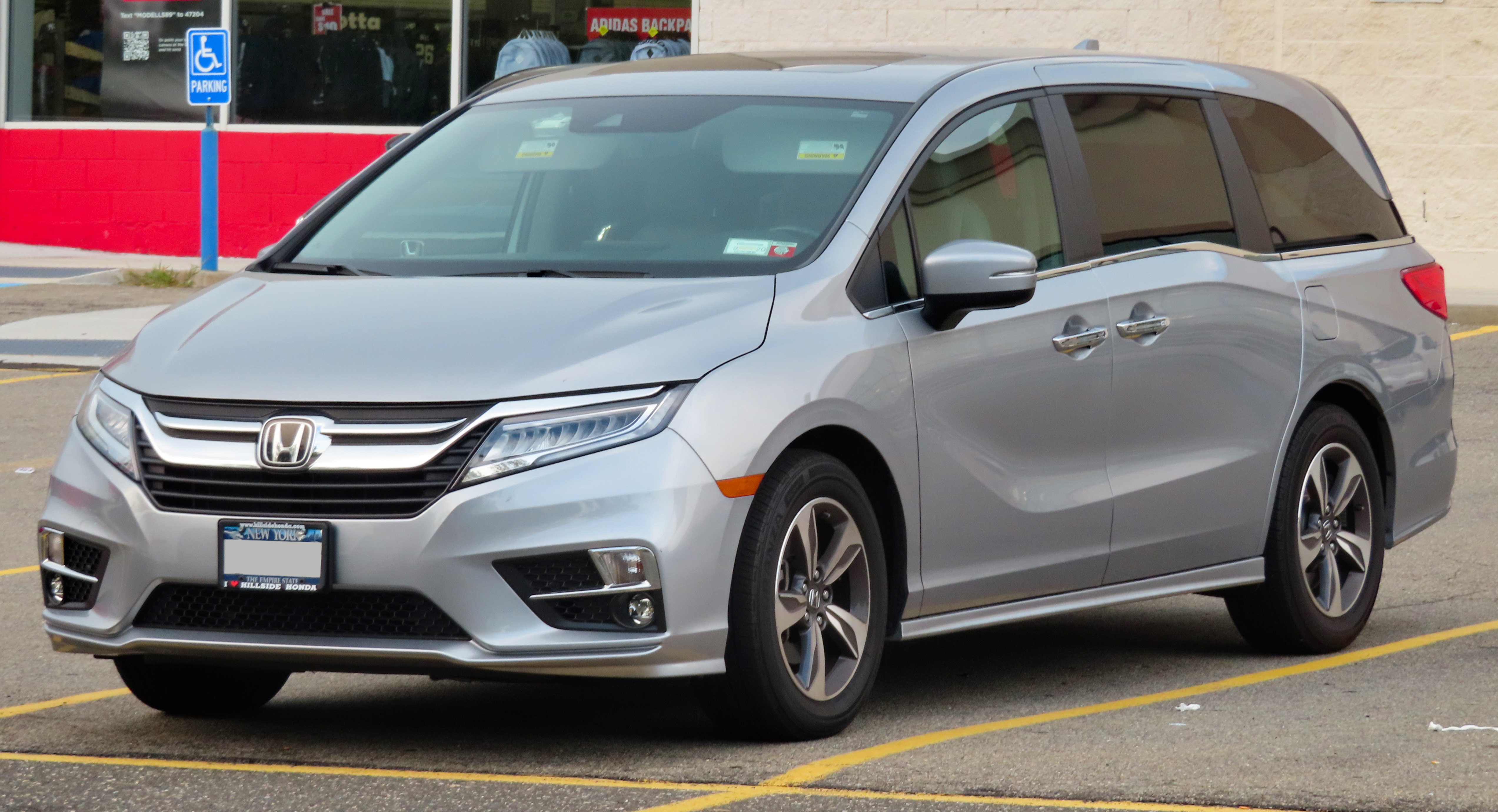 A 2018 Honda Odyssey Touring photographed in College Point, Queens, New York, USA